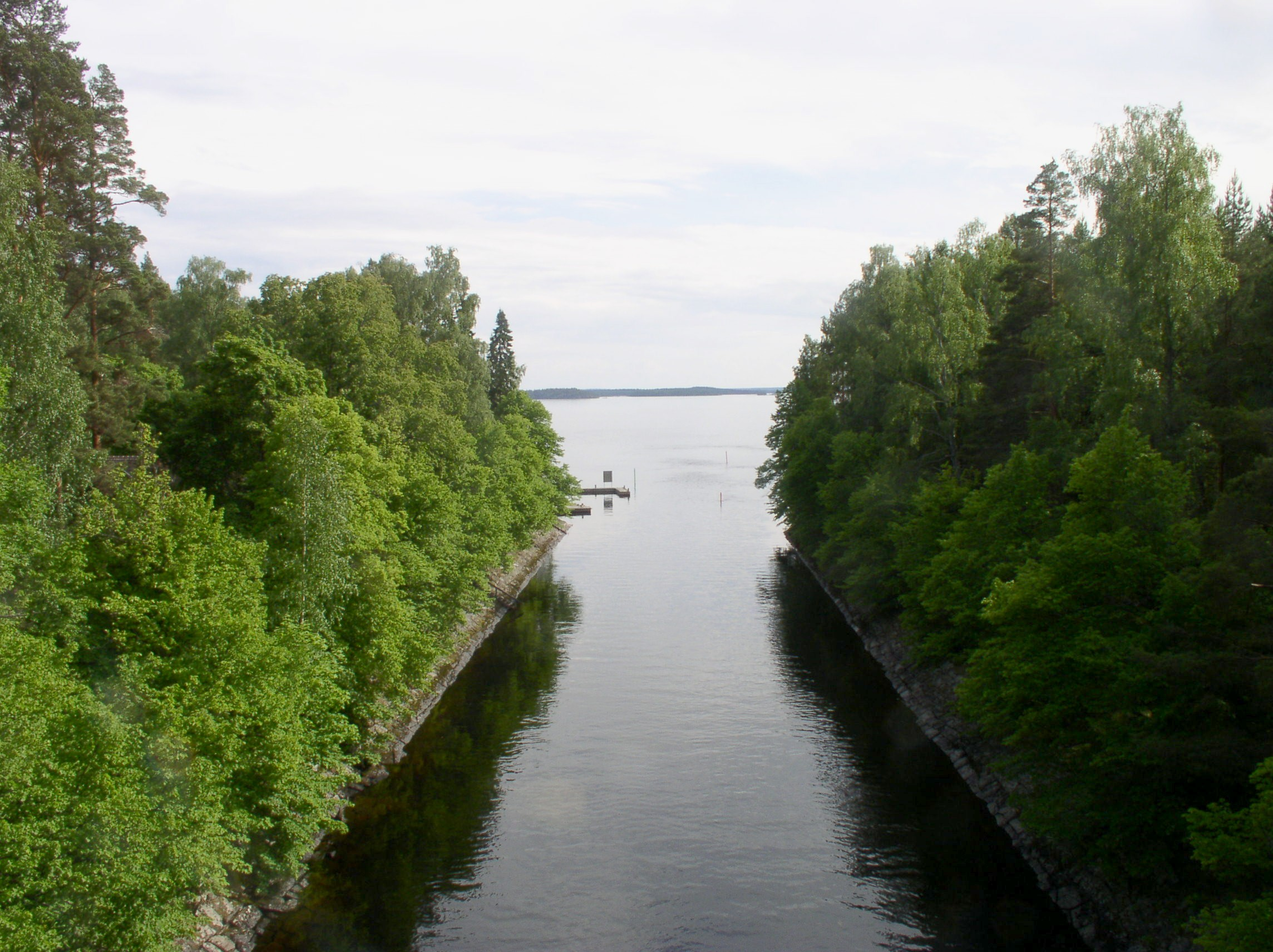 Oravi canal in Savonlinna, Finland.